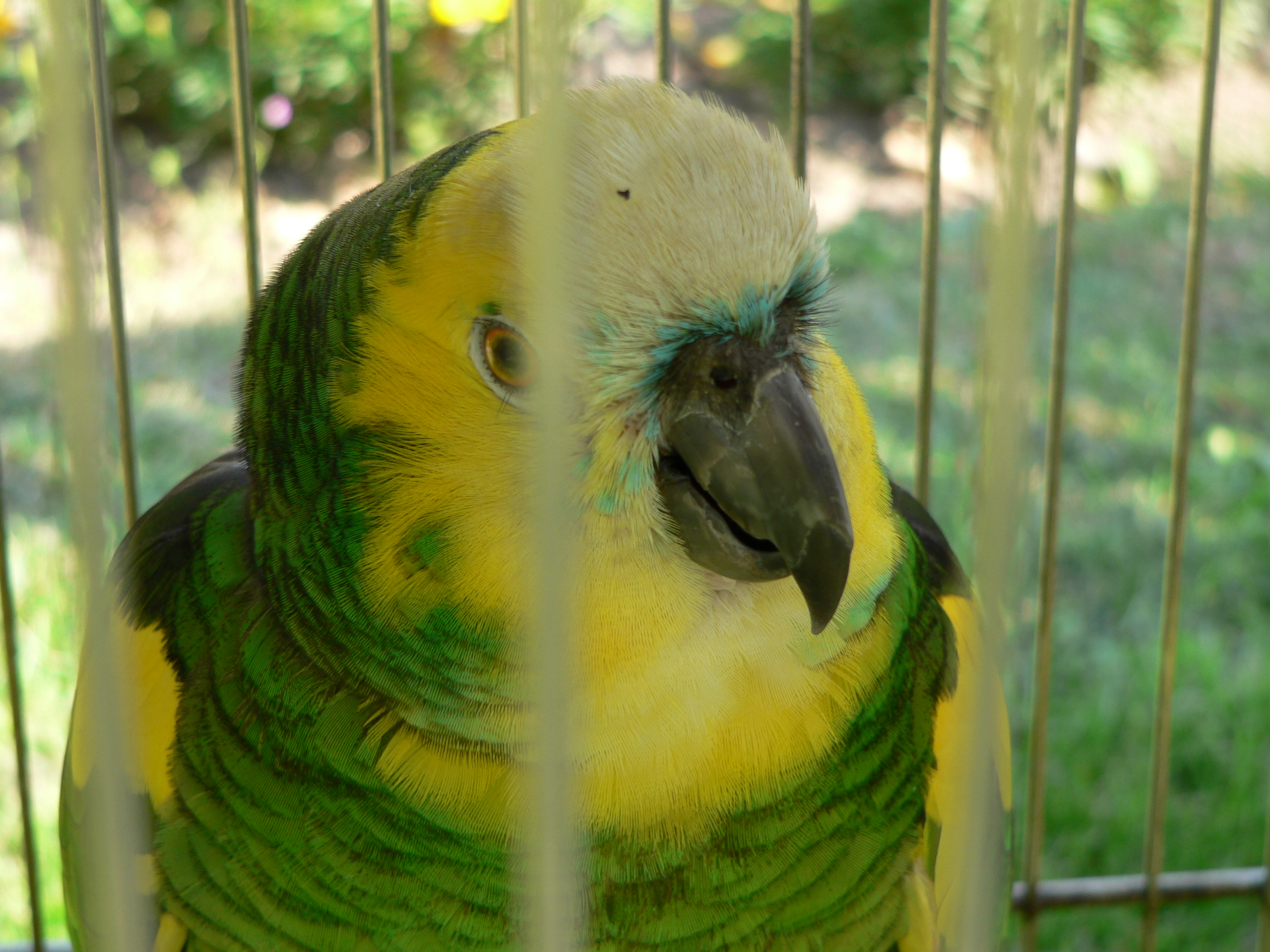 Blue-fronted Amazon, also known as Blue-fronted Parrot in a cage. Photograph shows upper body.